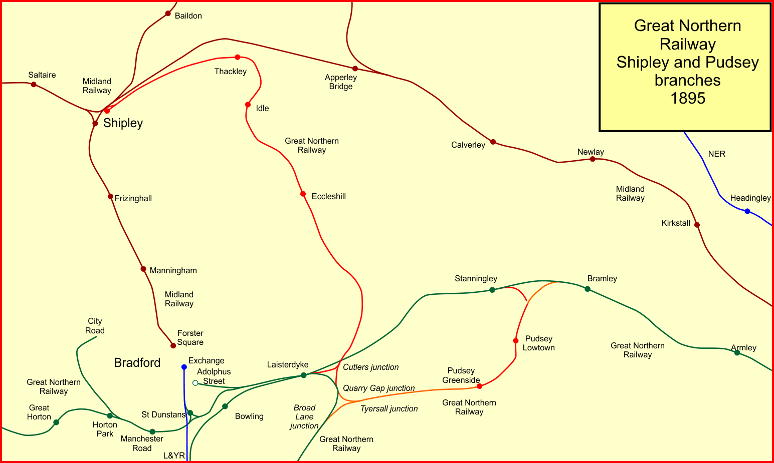 System map of railway lines in West Yorkshire, England: the Shipley branch line and the Pudsey branch line, as they were in 1895